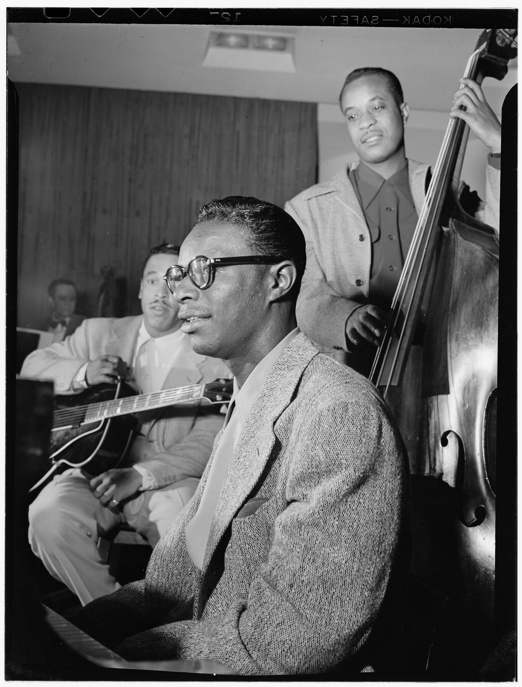 Gottlieb, William P., 1917-, photographer. [Portrait of Oscar Moore, Nat King Cole, and Wesley Prince, New York, N.Y., ca. July 1946] 1 negative : b&w ; 3 1/4 x 4 1/4 in. Caption from Down Beat: Here is a rehearsal shot of the King Cole Trio made by Bill Gottlieb, Beat staffer. In an adjoining column Bill writes about Nat Cole's interest in Latin-American music. Notes: Gottlieb Collection Assignment No. 080 Reference print available in Music Division, Library of Congress. Purchase William P. Gottlieb Forms part of: William P. Gottlieb Collection (Library of Congress). In: "Nat King Cole gets his trio set for concerts," Down Beat, v. 13, no. 14 (July 1, 1946), p. 2. Subjects: Moore, Oscar Cole, Nat King, 1917-1965 Prince, Wesley King Cole Trio Jazz musicians--1940-1950. Pianists--1940-1950. Jazz singers--1940-1950. Guitarists--1940-1950. Double bassists--1940-1950. Format: Portrait photographs--1940-1950. Group portraits--1940-1950. Film negatives--1940-1950. Rights Info: Mr. Gottlieb has dedicated these works to the public domain, but rights of privacy and publicity may apply. Repository: (negative) Library of Congress, Prints & Photographs Division, Washington D.C. 20540 USA, (reference print) Library of Congress, Music Division, Washington D.C. 20540 USA, Part Of: William P. Gottlieb Collection (DLC) 99-401005 General information about the Gottlieb Collection is available at Persistent URL: Call Number: LC-GLB13- 0150 This work is from the William P. Gottlieb collection at the Library of Congress. Rights and restrictions. In accordance with the wishes of William Gottlieb, the photographs in this collection entered into the public domain on February 16, 2010.